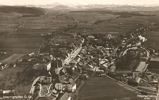 Mattighofen